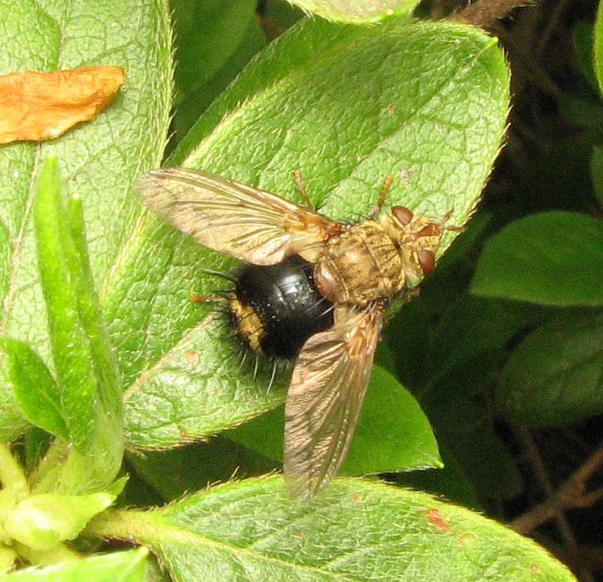 Tachinid fly, Epalpus signifer. Temple University, Ambler, Montgomery County, Pennsylvania, USA.